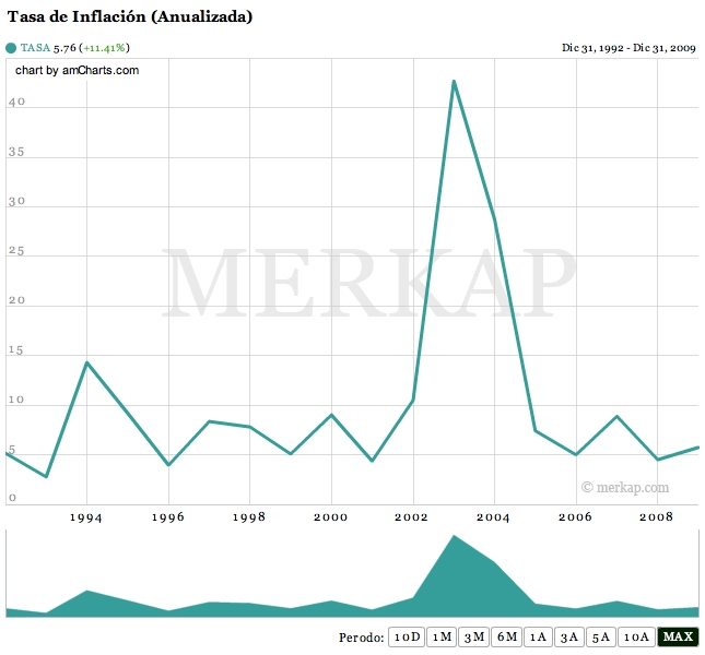 Annual Inflation